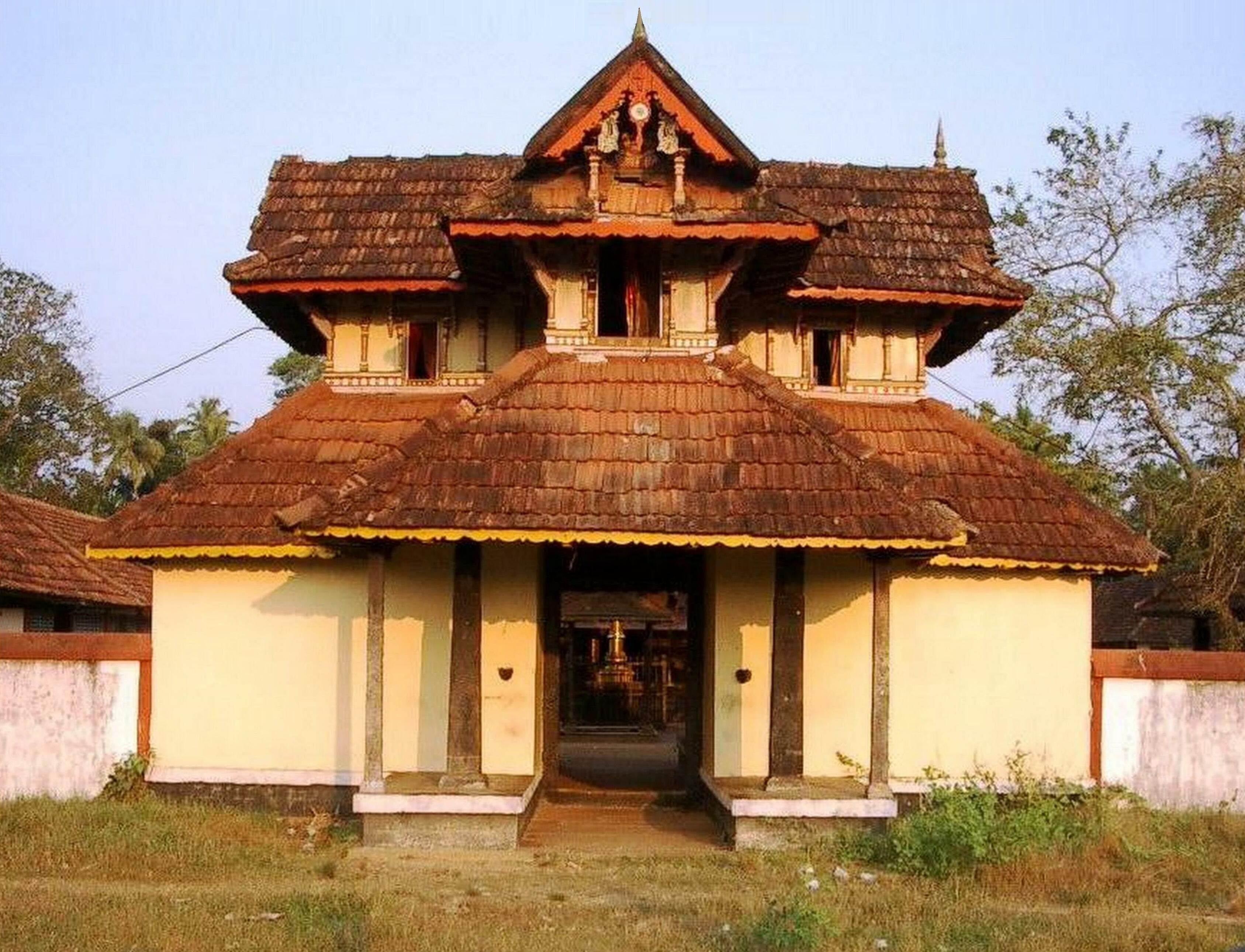 Moncompu Devi Temple Tower